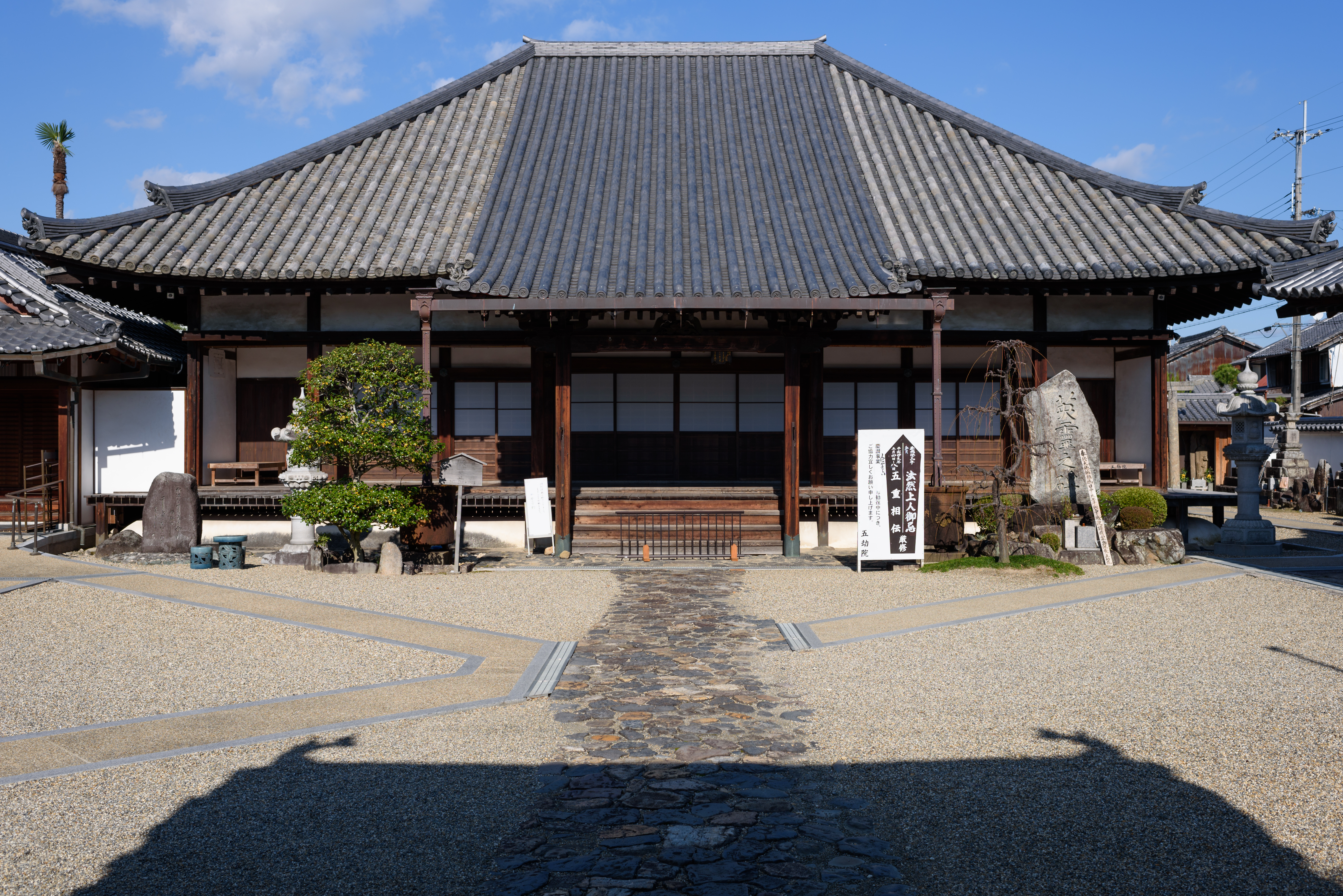 Gokōin, a branch temple of Tōdai-ji, in Nara, Nara Prefecture, Japan